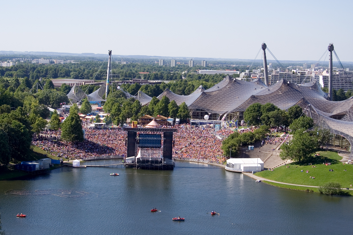 Fanfest Munich Olympiapark 11. June 2006 (SCG: NED)